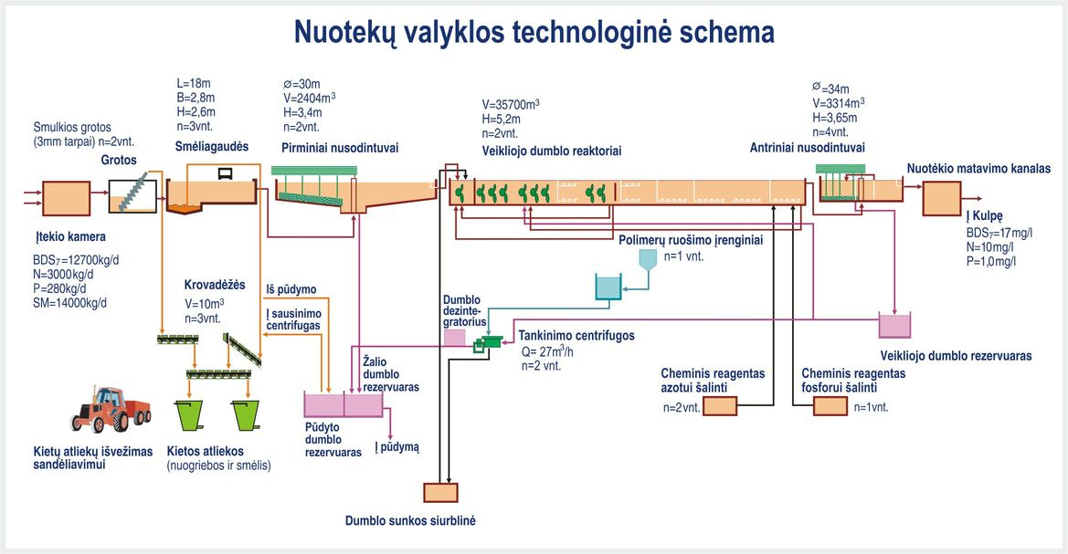 Wastewater treatment technological scheme